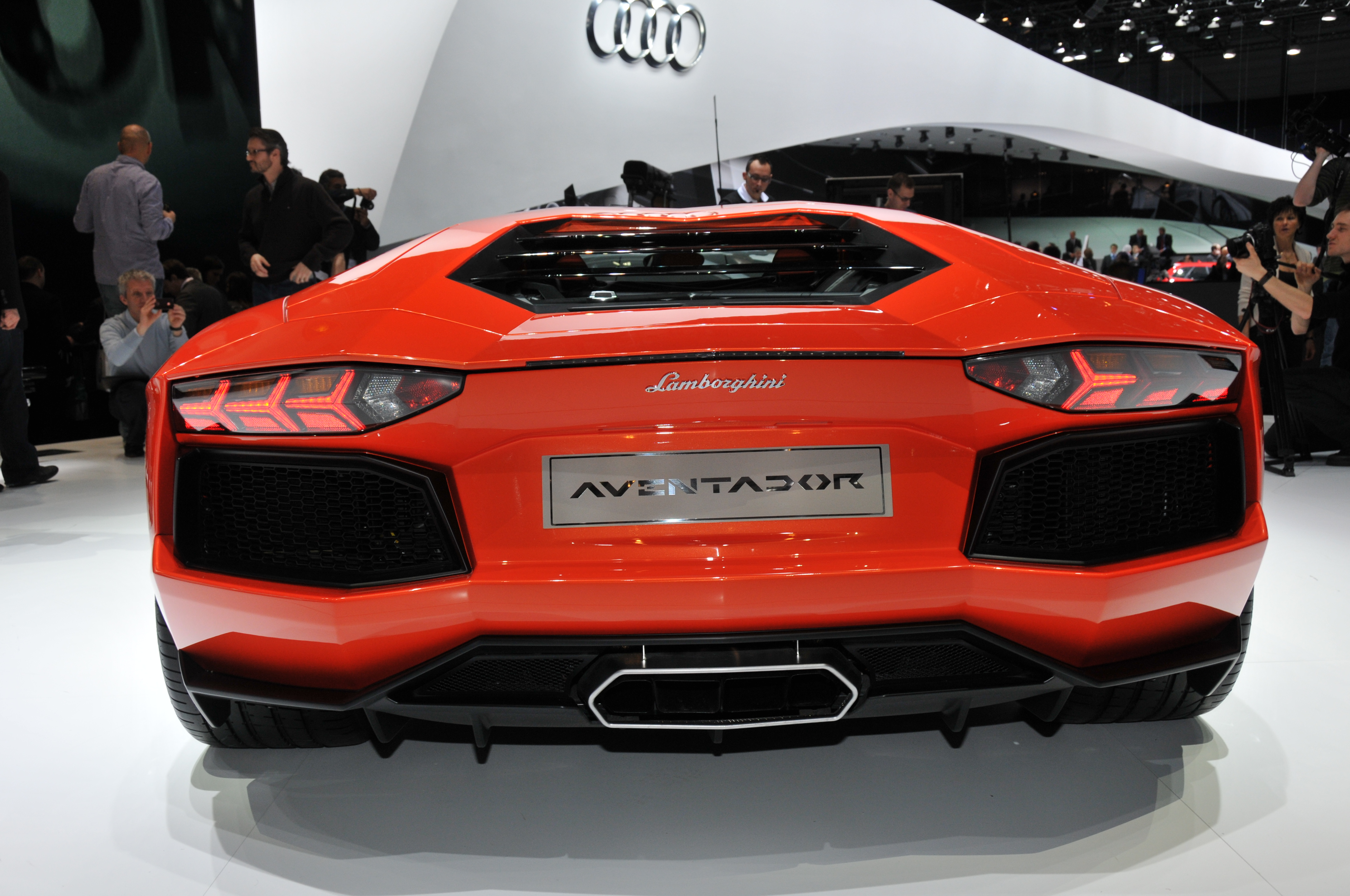 Lamborghini Aventador presented 2011 at the Geneva Motor Show